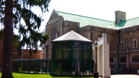 Vassar College was the first college in the United States to be founded with a full-scale museum as part of its original plan. The Frances Lehman Loeb Art Center is currently one of the largest college or university museums in the world, with over 18,000 works of art. Courtyard of gallery.